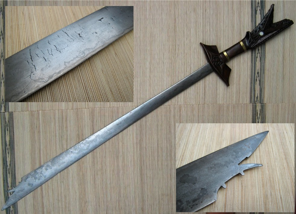 This huge Moro (Philippine Muslim) kampilan is thought to be late-19th to early-20th century. Its "eyes" is made of mother-of-pearl. The lamination (pattern welding) of the blade is clearly visible. A close-up view of the characteristic kampilan spikelet on the blade's tip is also shown. Overall length: 988 mm (39 1/2 inches); Blade length: 735 mm (29 1/2 inches), and 8 mm (5/16 inches) maximum blade thickness. Other uploaded materials by the same author are here: (a) Luzon weapons; (b) Visayan weapons; (c) Moro weapons; and (d) Lumad (non-Moro Mindanao) weapons